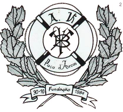 AHBVPA-Emblema02